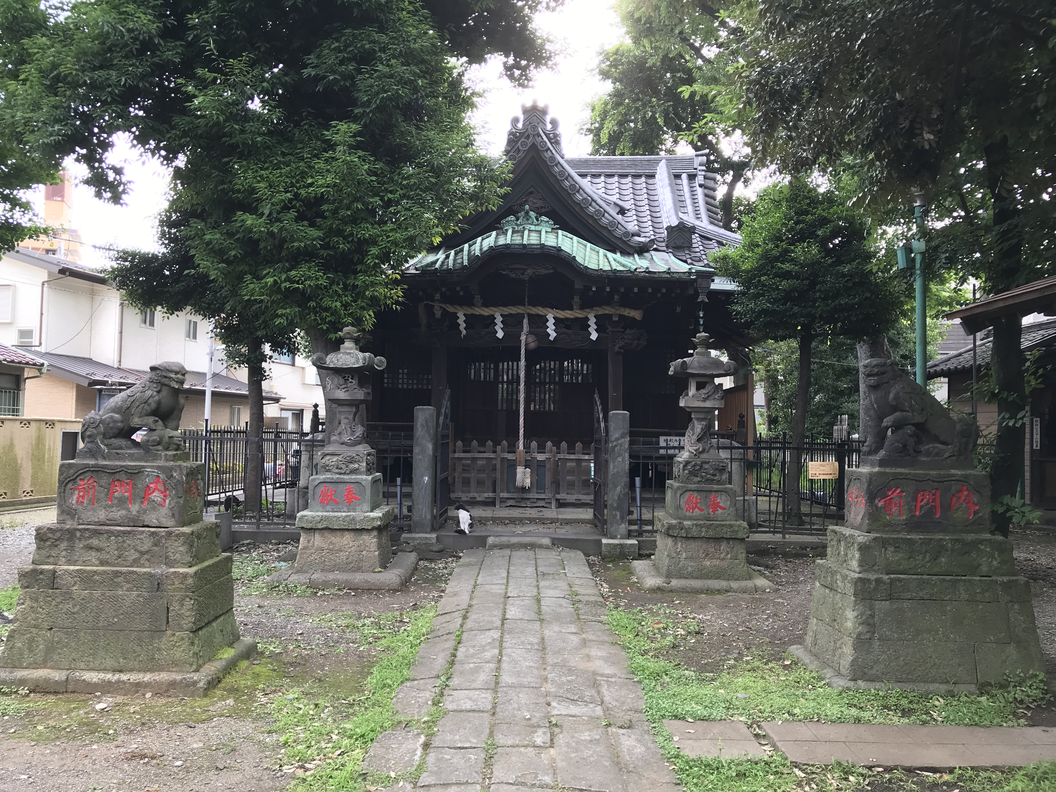 Photo of Minami-Shinagawa Suwa shrine. This shrine is at 2 Chome-7-7 Minami-Shinagawa, Shinagawa city, Tokyo